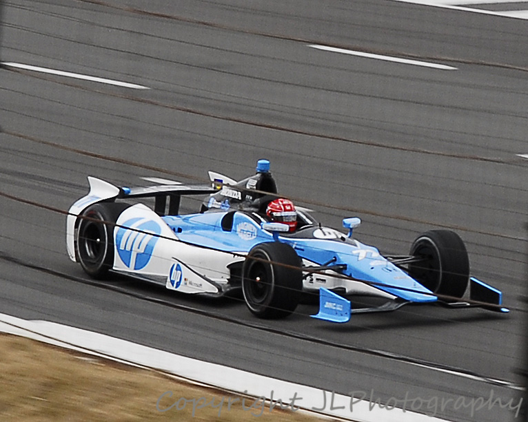 Indy Car Tire Test at Pocono Raceway